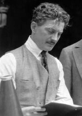 Photograph of director John W. Noble